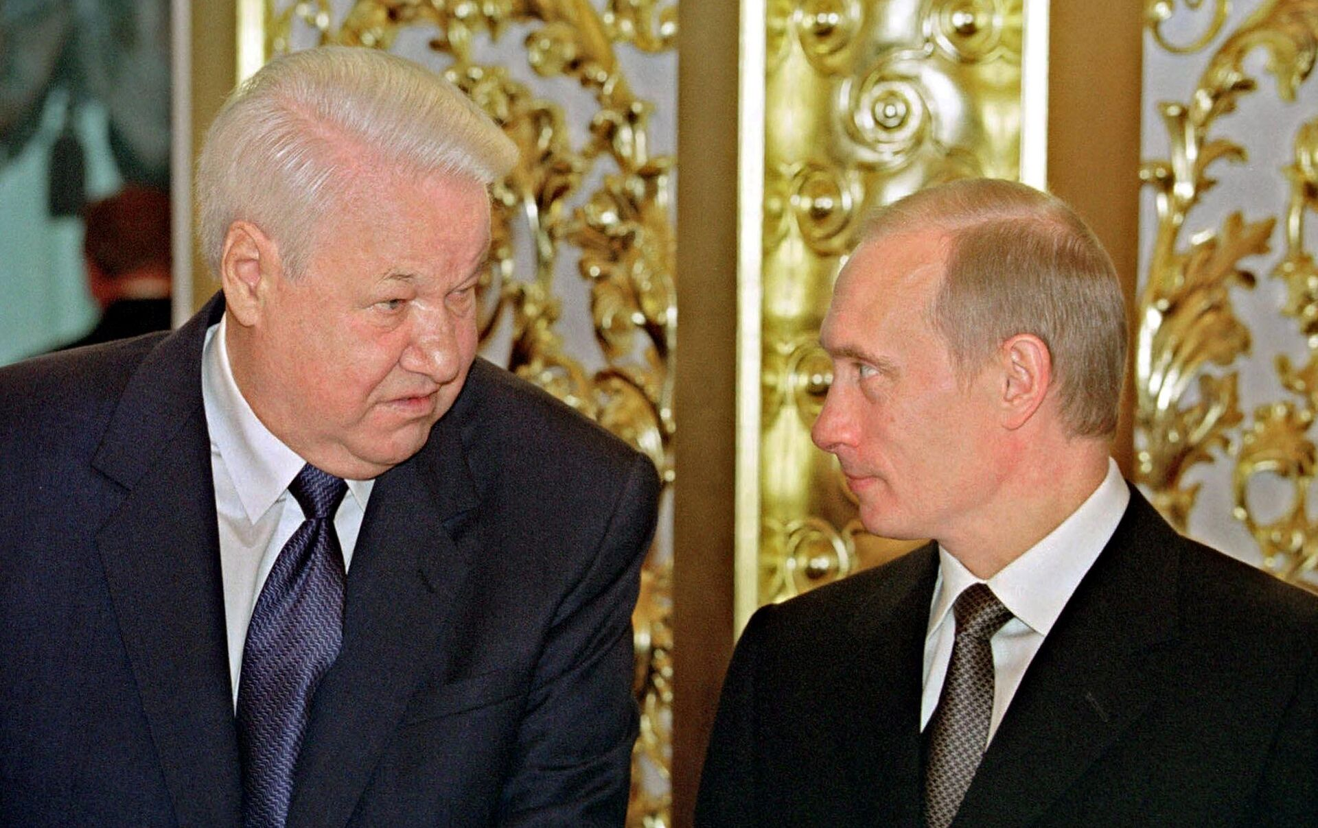 THE GRAND KREMLIN PALACE, MOSCOW. President Putin with Boris Yeltsin, the first Russian President, at a state reception dedicated to the Day of Russia.